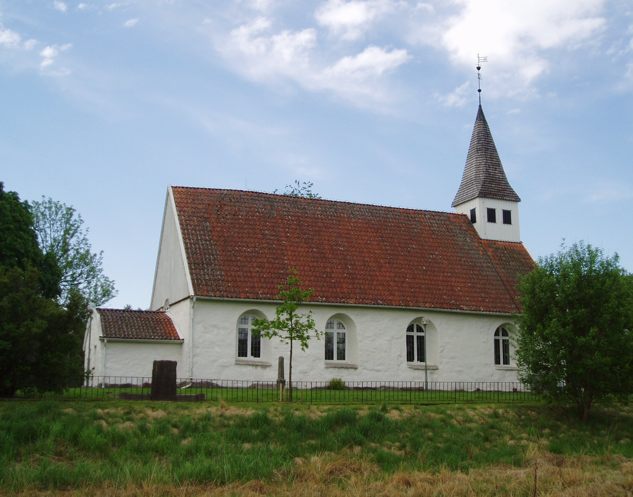 Bälinge church, West Gothland, Sweden